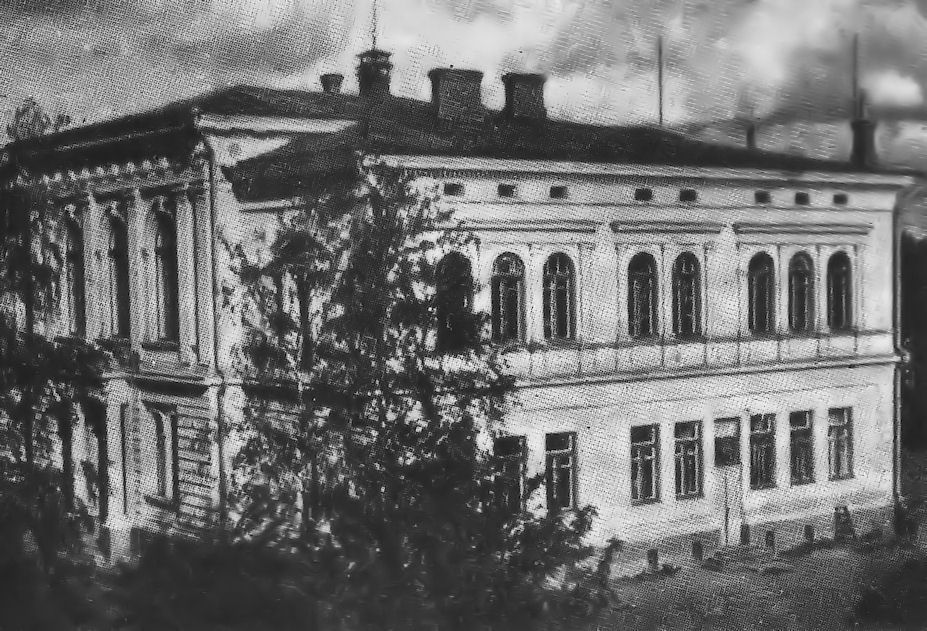 Raahen Porvari- ja Kauppakoulu, the oldest commercial college in Finland founded 1882 and located in the city of Raahe